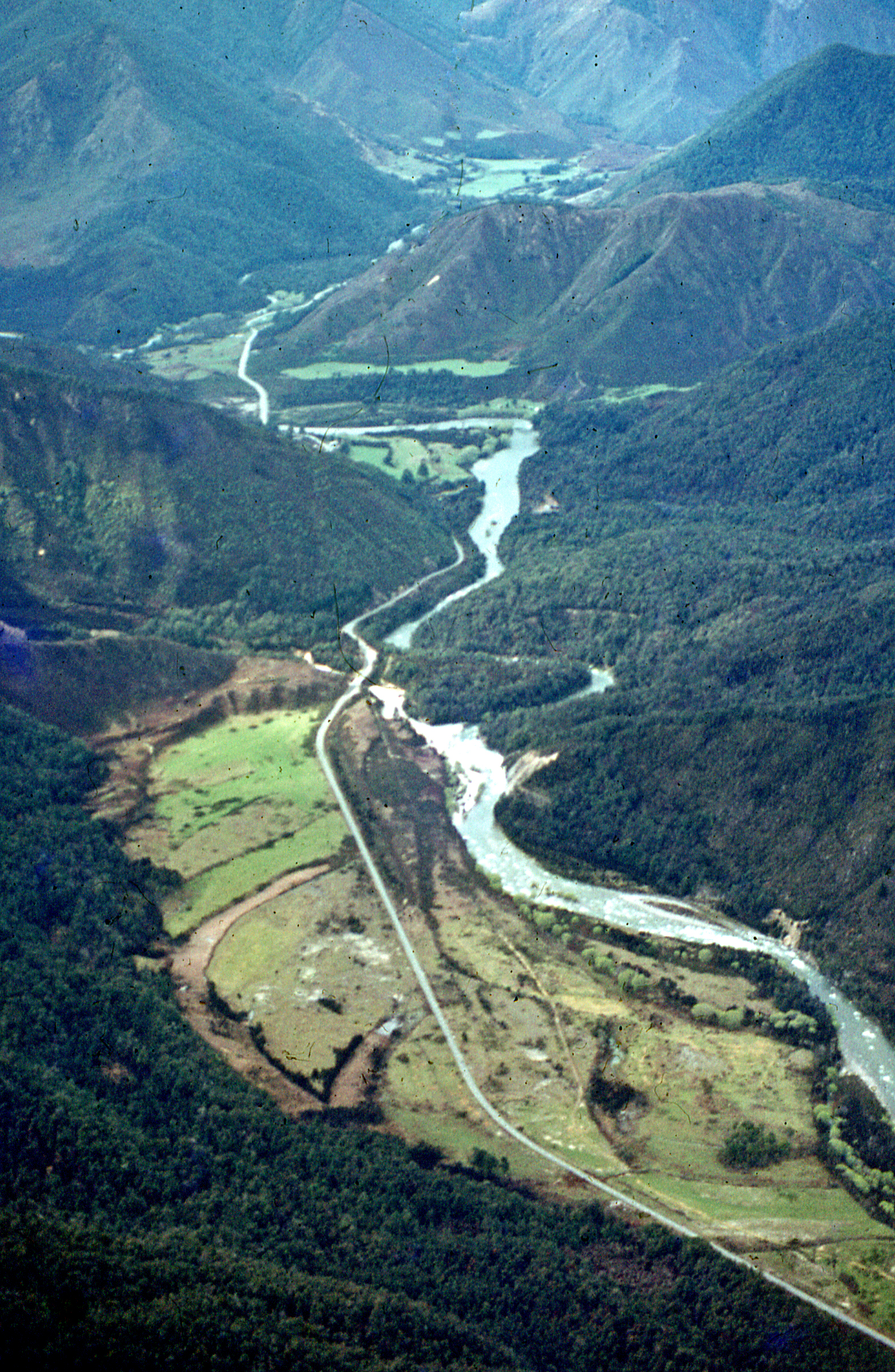 Inanagahua River at Crushington, Buller, New Zealand. En route Christchurch to Cronadun, 1977